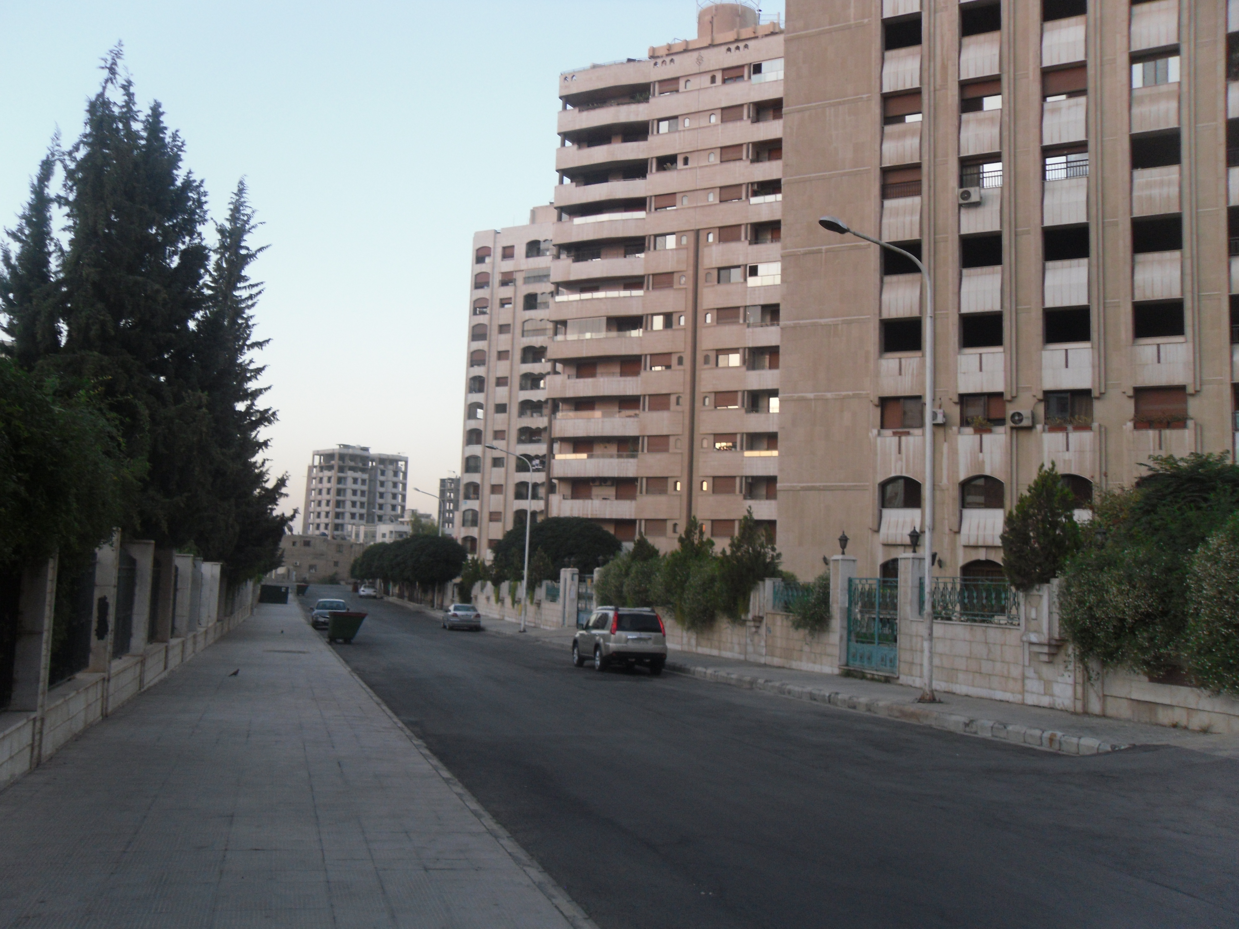 Kafarsouseh neighborhood near the park